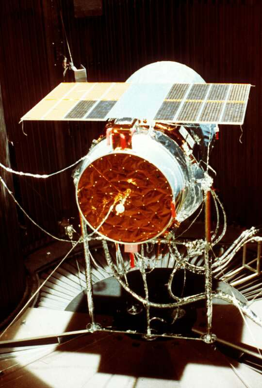 Infrared Astronomical Satellite in space simulator at JPL